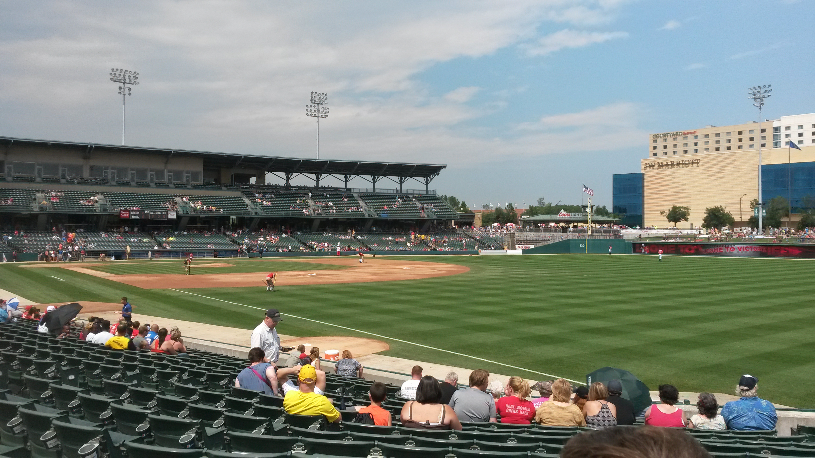 Taken at Victory Field, in Indianapolis, Indiana. Overlooking Left Field.